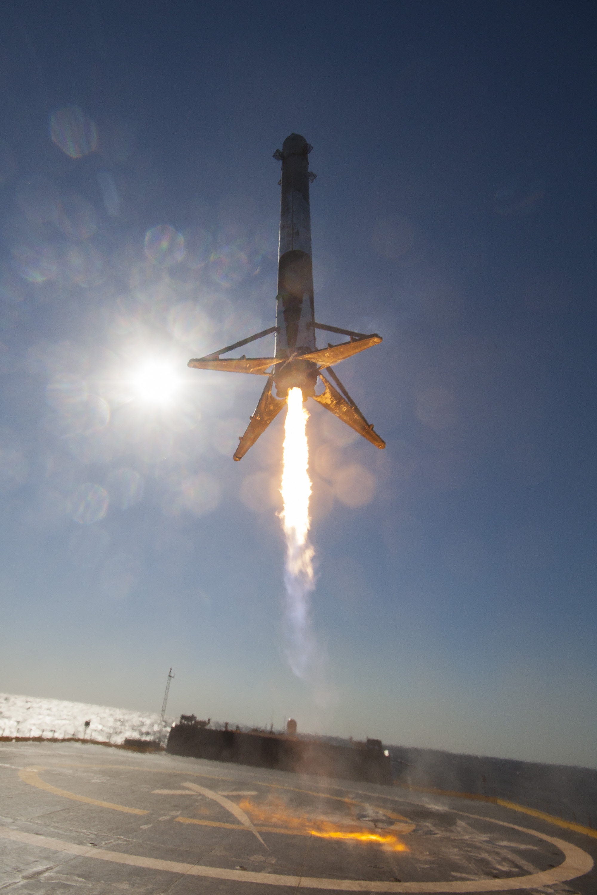 First stage of the SpaceX Falcon 9 rocket successfully landing on the commissioned Autonomous Spaceport Drone Ship for the first time on April 9. The mission, CRS-8, also launched the Dragon spacecraft to orbit.